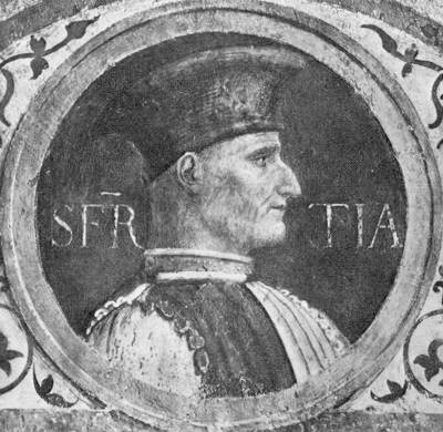 Condottiere Muzio Attendolo Sforza (1369-1424).